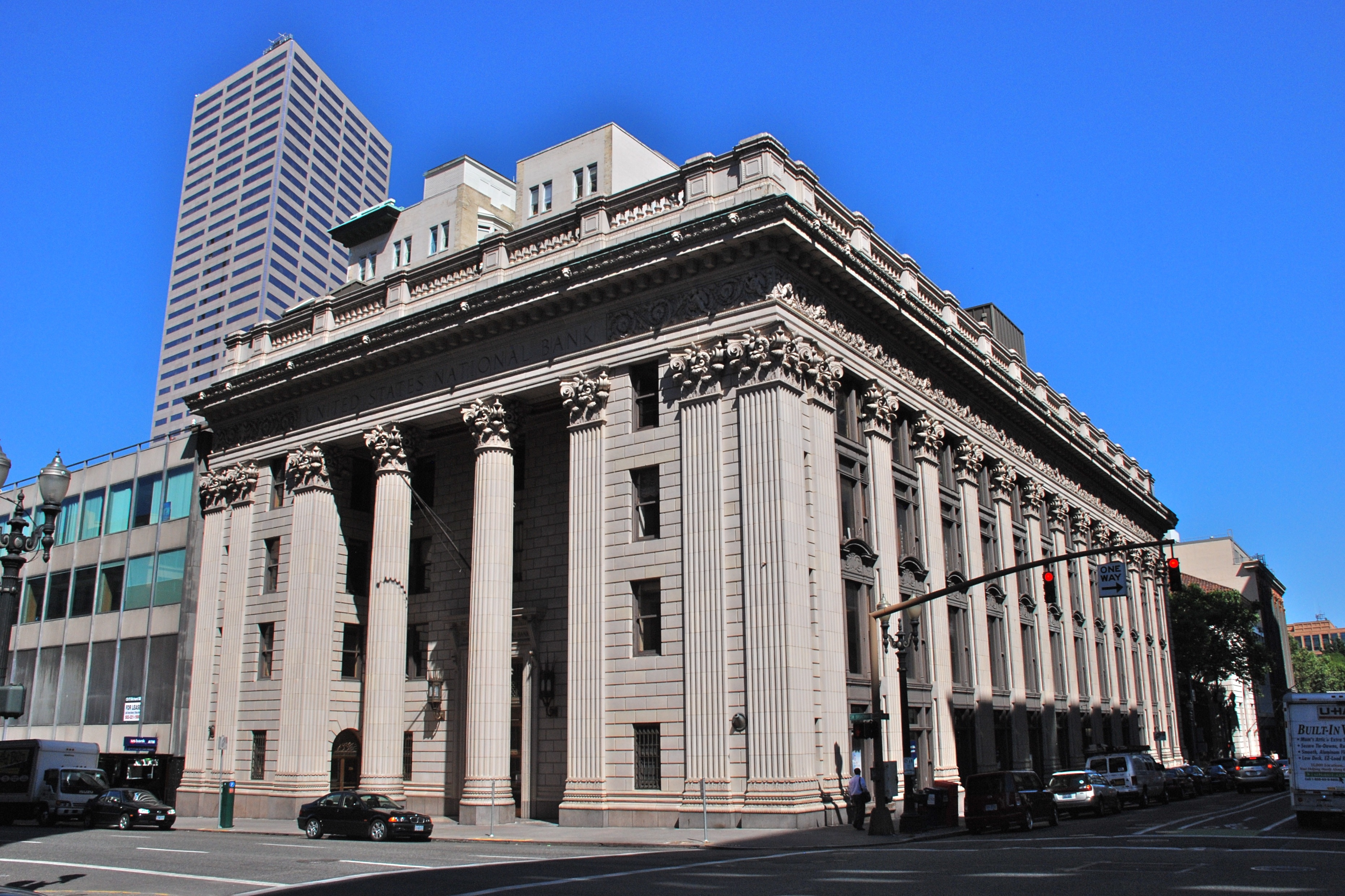 The United States National Bank Building, in Portland, Oregon, United States, is listed on the US National Register of Historic Places (NRHP). This view focuses on the building's south-southwest corner, at the intersection of Broadway & Stark Street. The building's eastern half (starting at 6th Avenue and extending west along Stark) was completed in 1917, while the western half – the portion most prominent in this photo – was completed in 1925. NRHP reference number 86002842